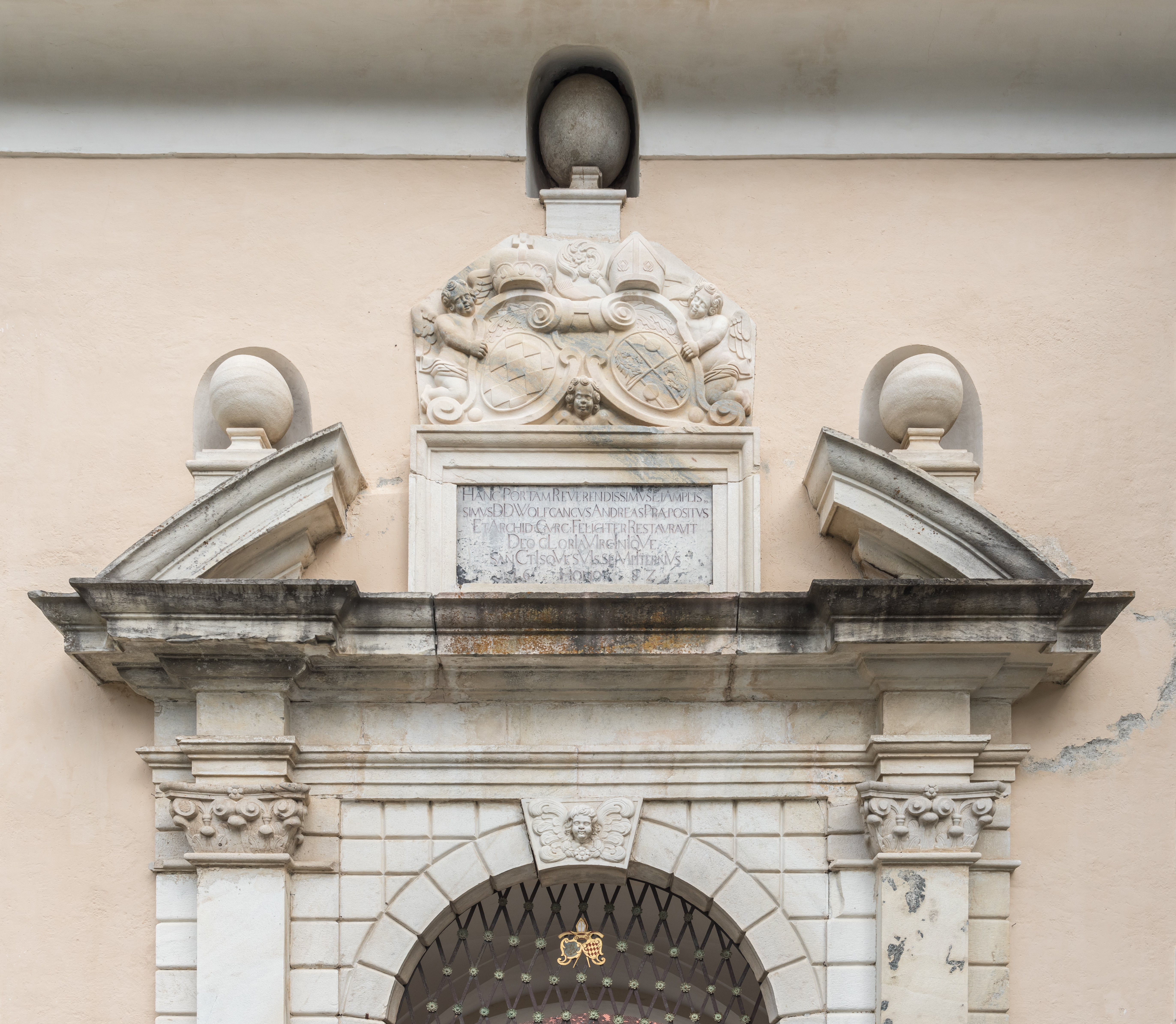 Overdoor of the western portal to the yard of the monastery on Domplatz #1, market town Gurk, district Sankt Veit an der Glan, Carinthia, Austria, EU